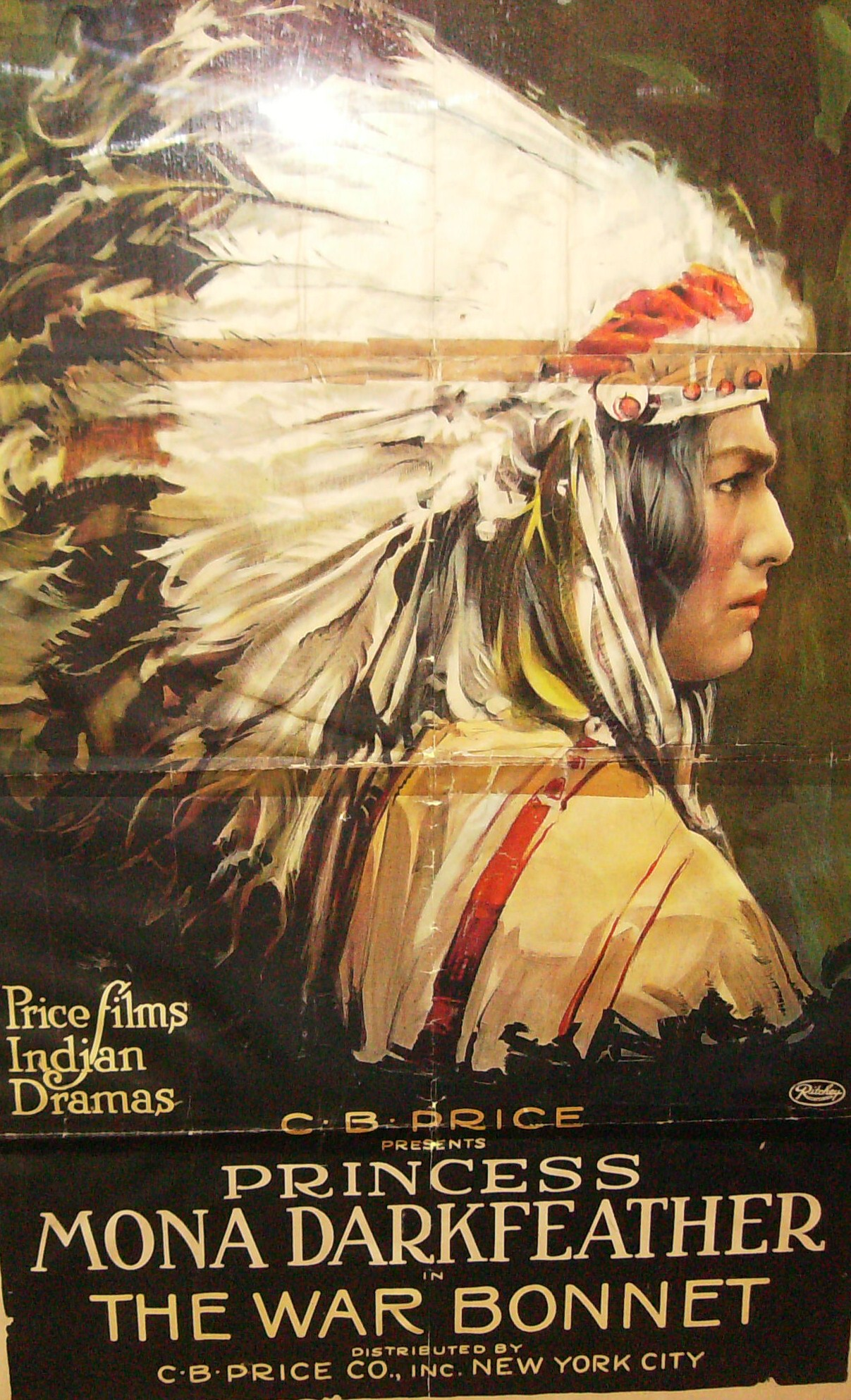 Poster of the 1914 movie The War Bonnet.